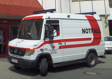 Emergency Ambulance Vehicle, Medizinercorps, Austrian Red Cross, Division Styria, District Branch of Graz